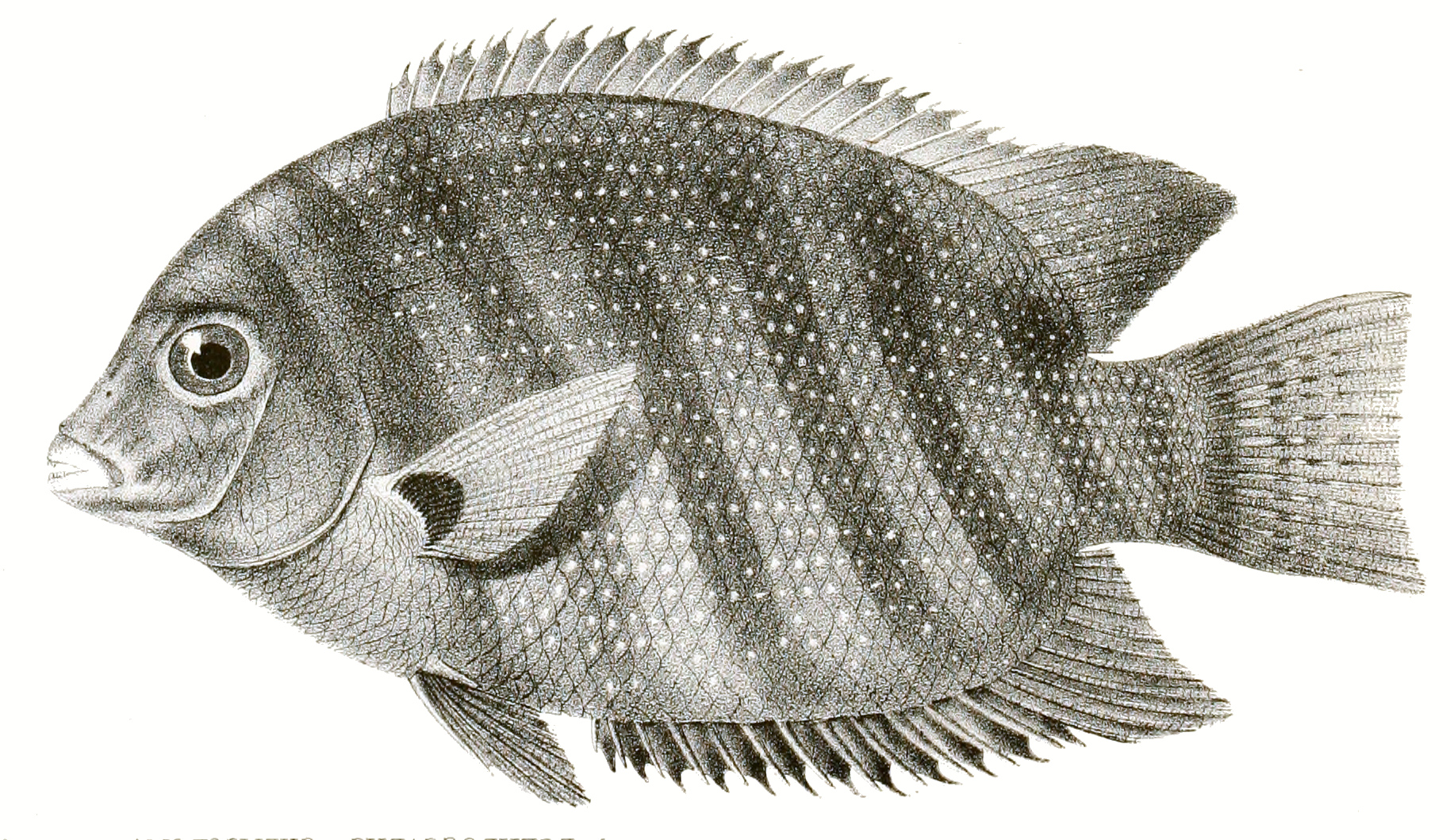 The species names / identity need verification. The original plates showed the fishes facing right and have been flipped here. Etroplus suratensis